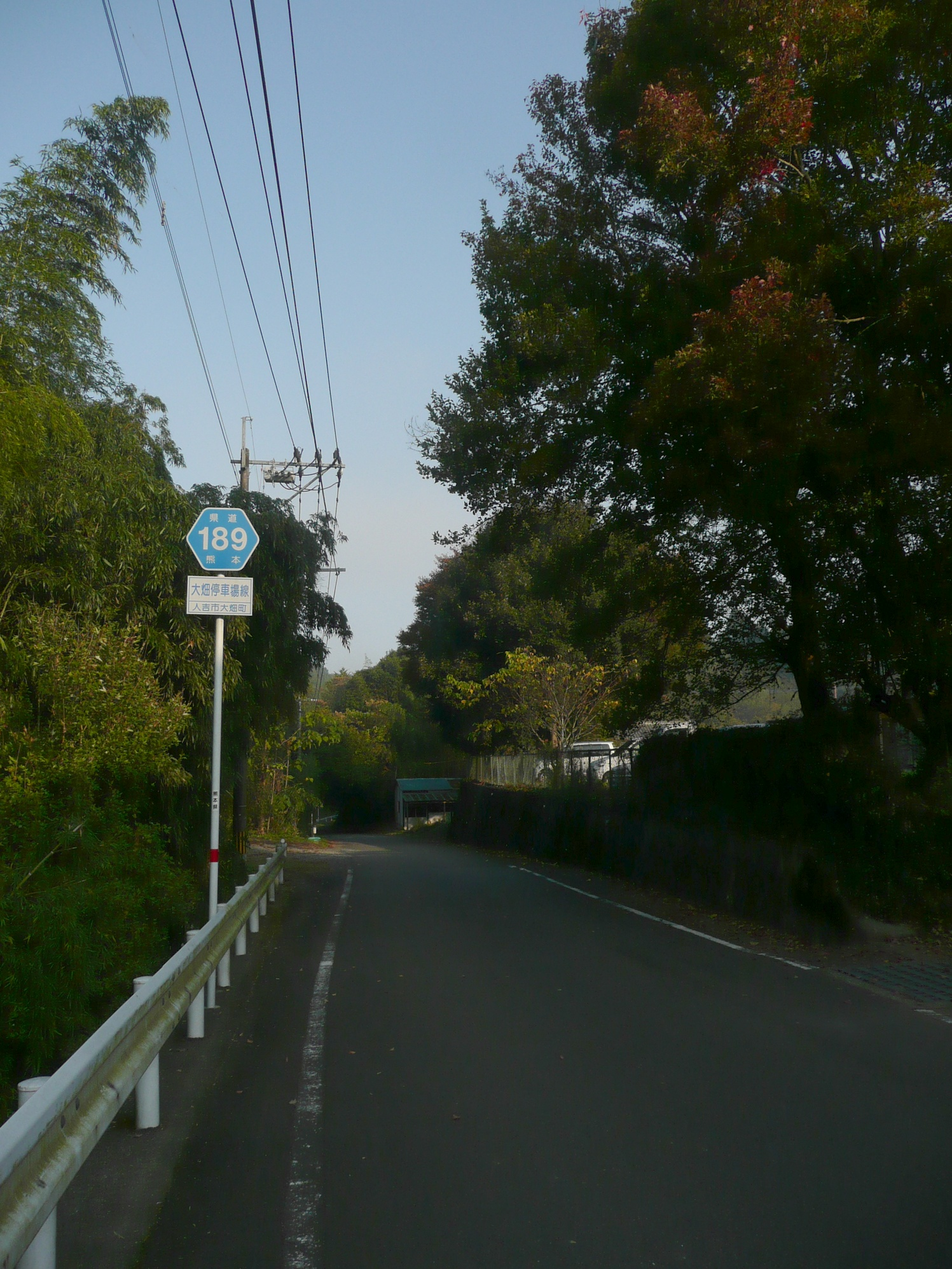 Kumamoto Prefectural Road No.189 - Okoba Station Line (Hitoyoshi City, Kumamoto, Japan)